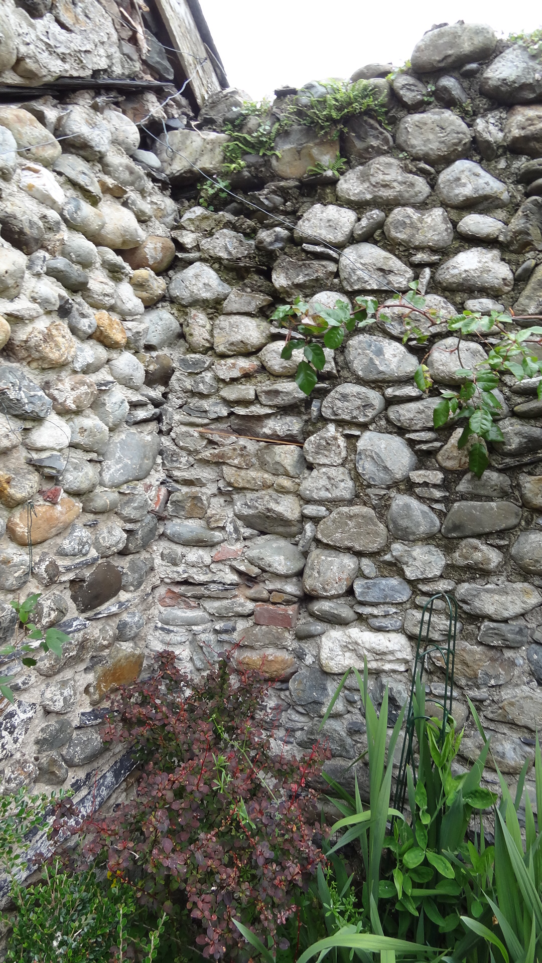 Stone walls in the old town; left c.1750, right and middle; before 1694